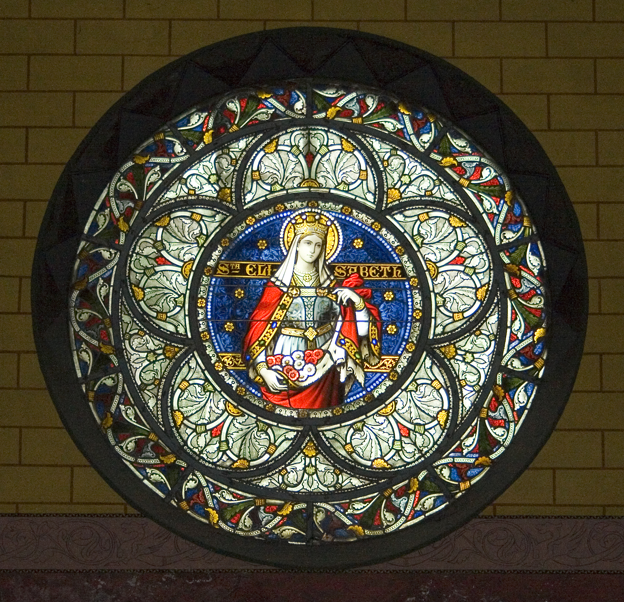 Inside the chapel of the water castle Tuernich, quarter of Kerpen